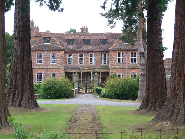 Landscape avenue (allee') on axis with Groombridge Place - located in Kent, England.